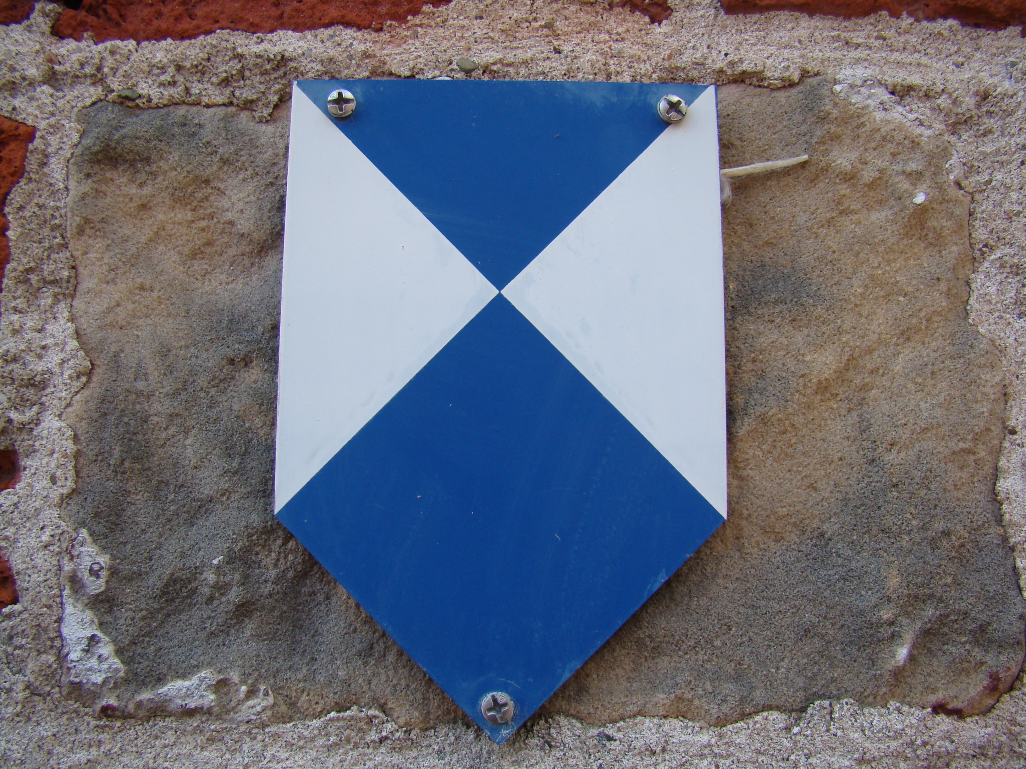 Impressions of Appingedam, Netherlands Monumentenschildje in Appingedam